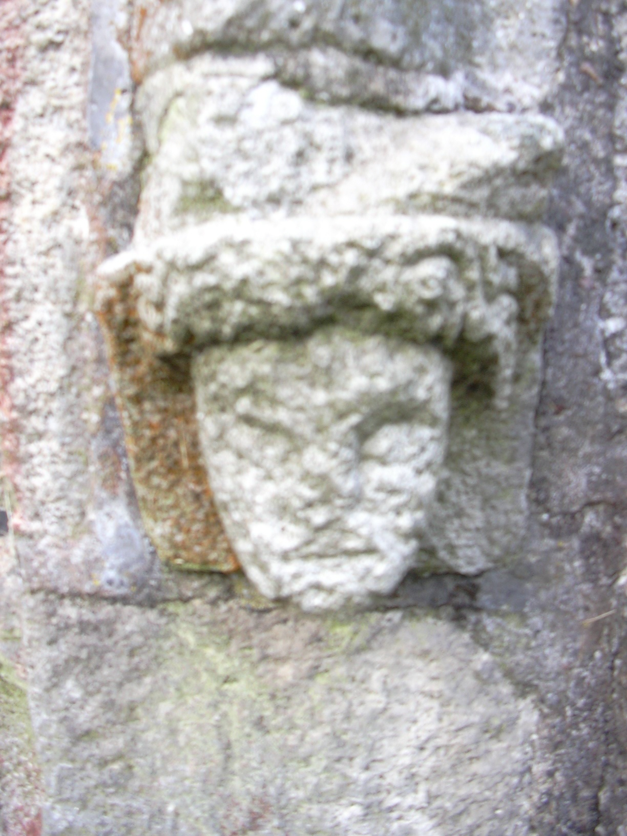 Portrait on right of South Door of Mabe Church